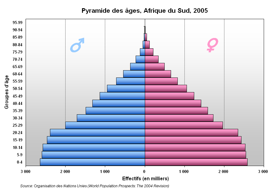 South Africa Population pyramid, 2005